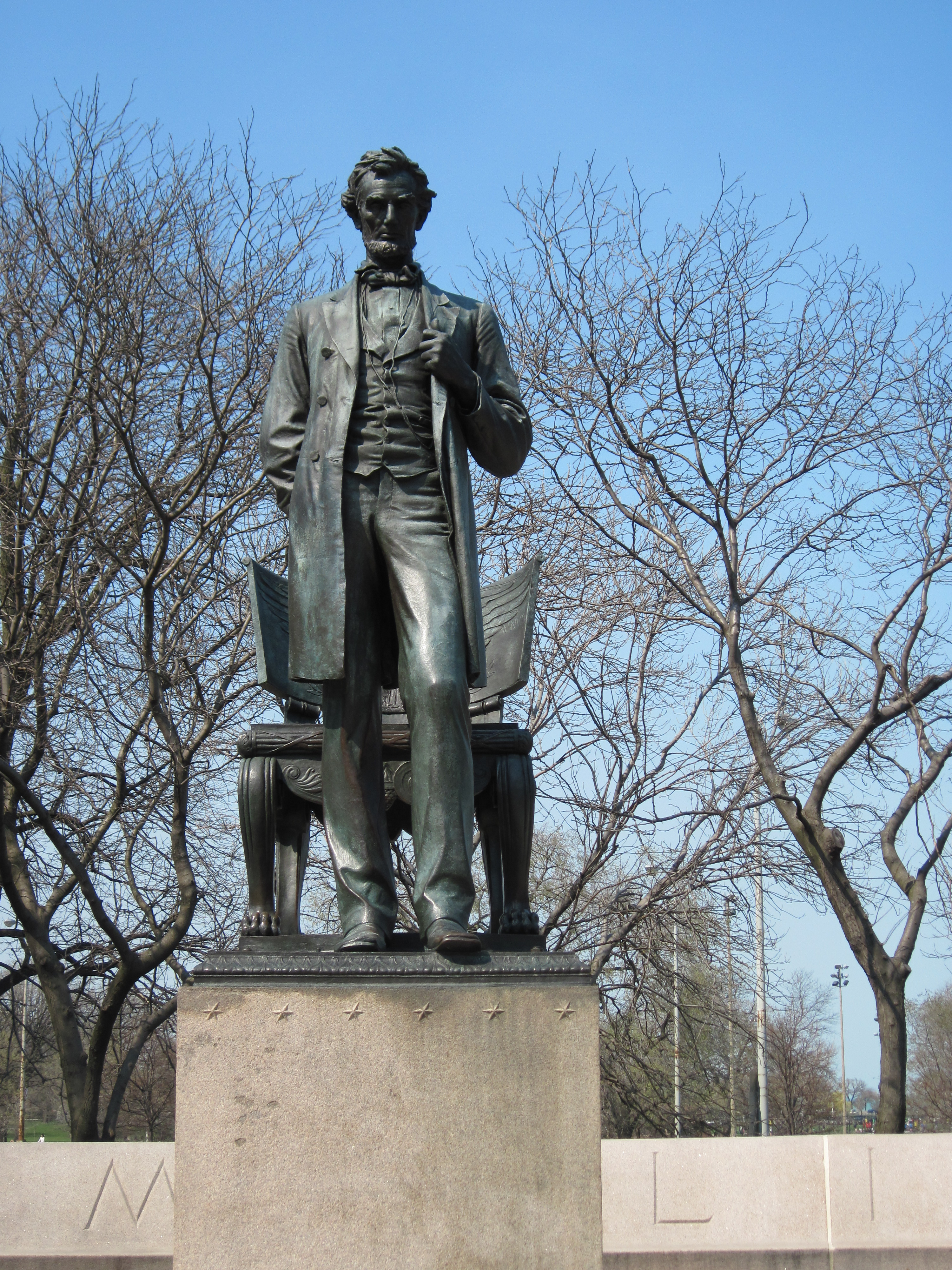 Standing Lincoln sculpture in Chicago. Completed by Augustus Saint-Gaudens (1848-1907) in 1887.